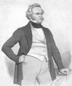 Portrait (lithograph) of Alexander Pagenstecher, Deputy of Elberfeld at the first German National Parliament at Frankfurt 1848